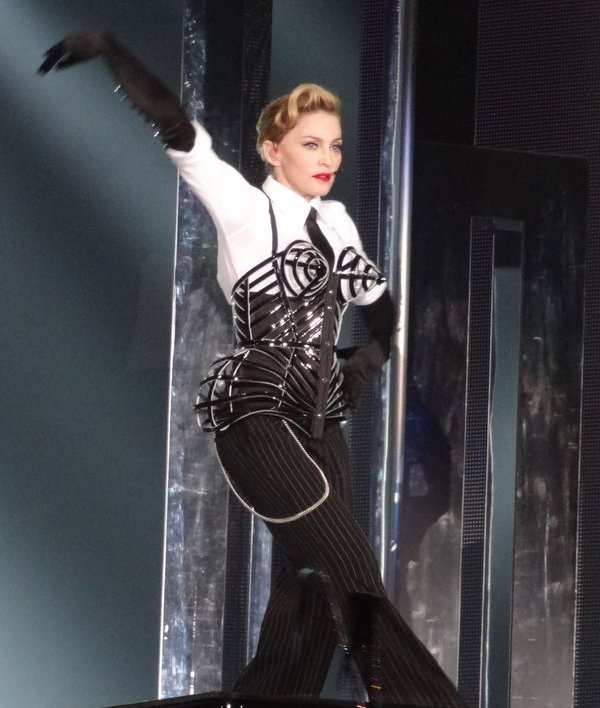 Madonna live at the o2 World, Berlin on 30 June 2012 during her MDNA Tour.